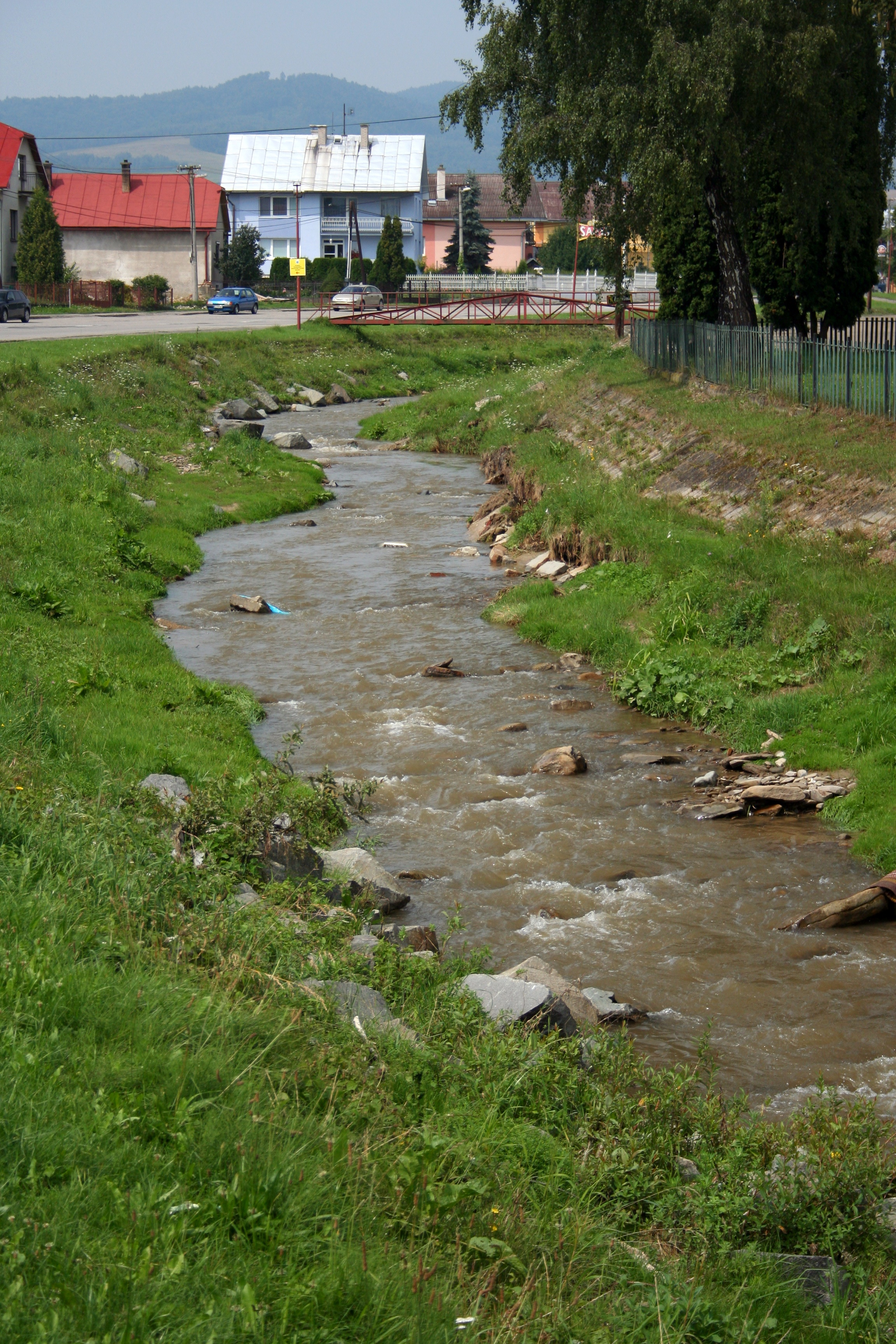 the Topľa river in Malcov, village in Slovakia